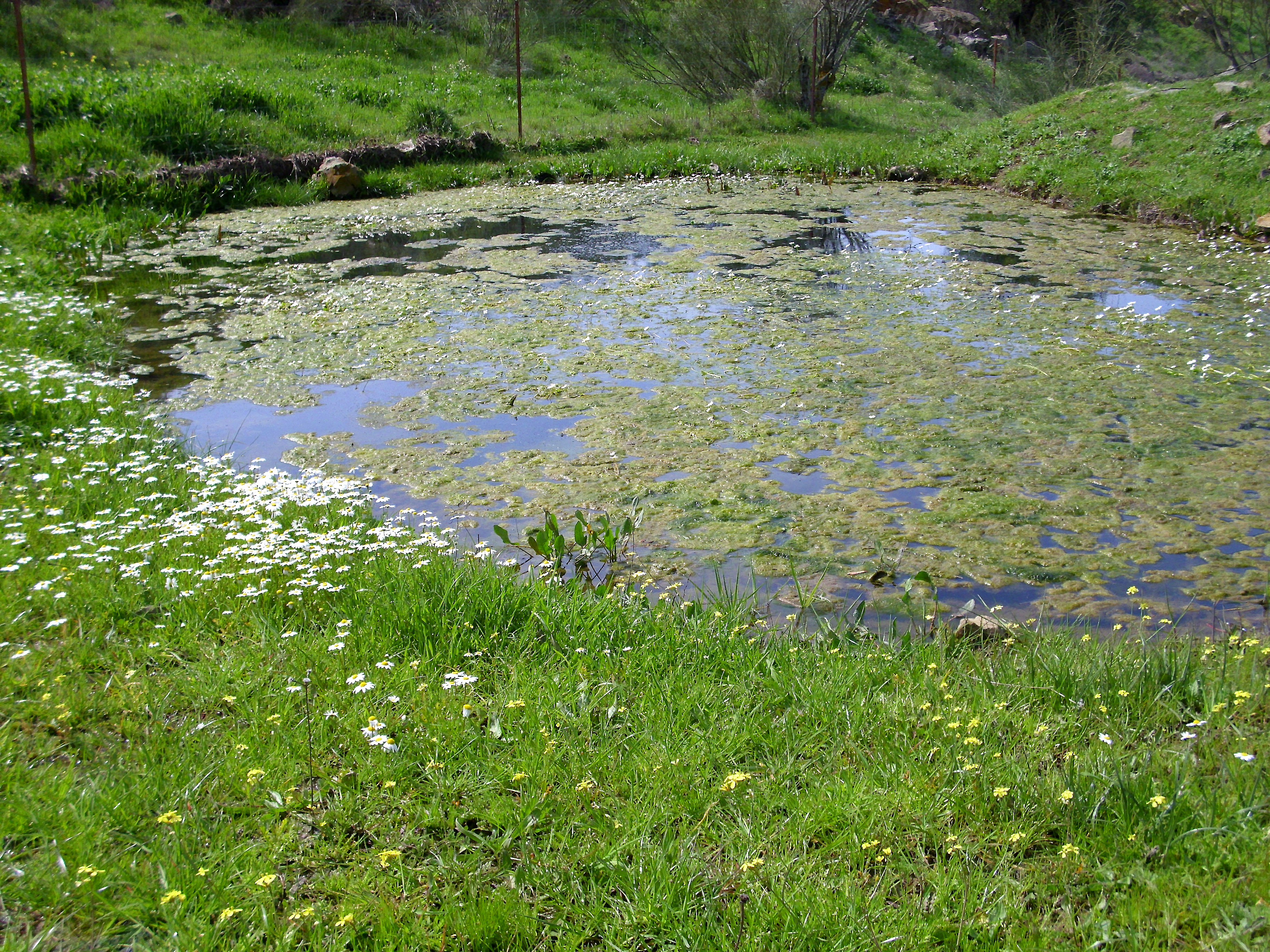 Ranunculus peltatus habitat, Dehesa Boyal de Puertollano, Spain